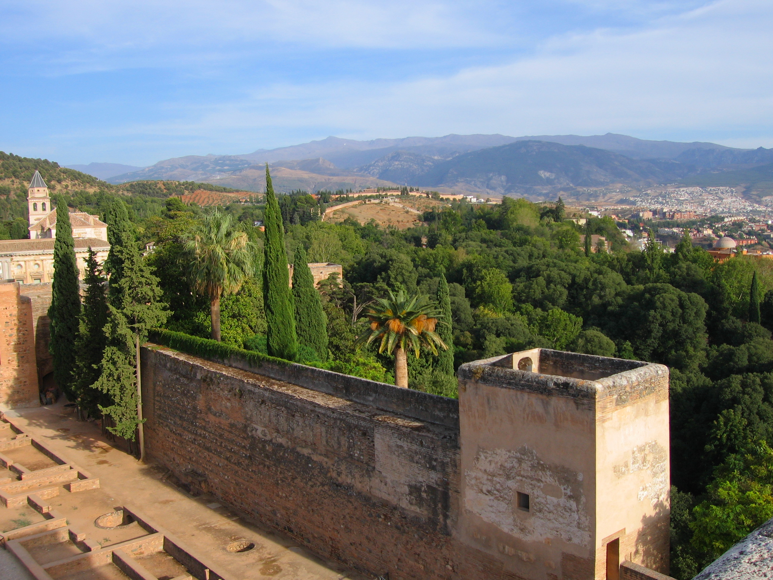 View east to the Sierra Nevada